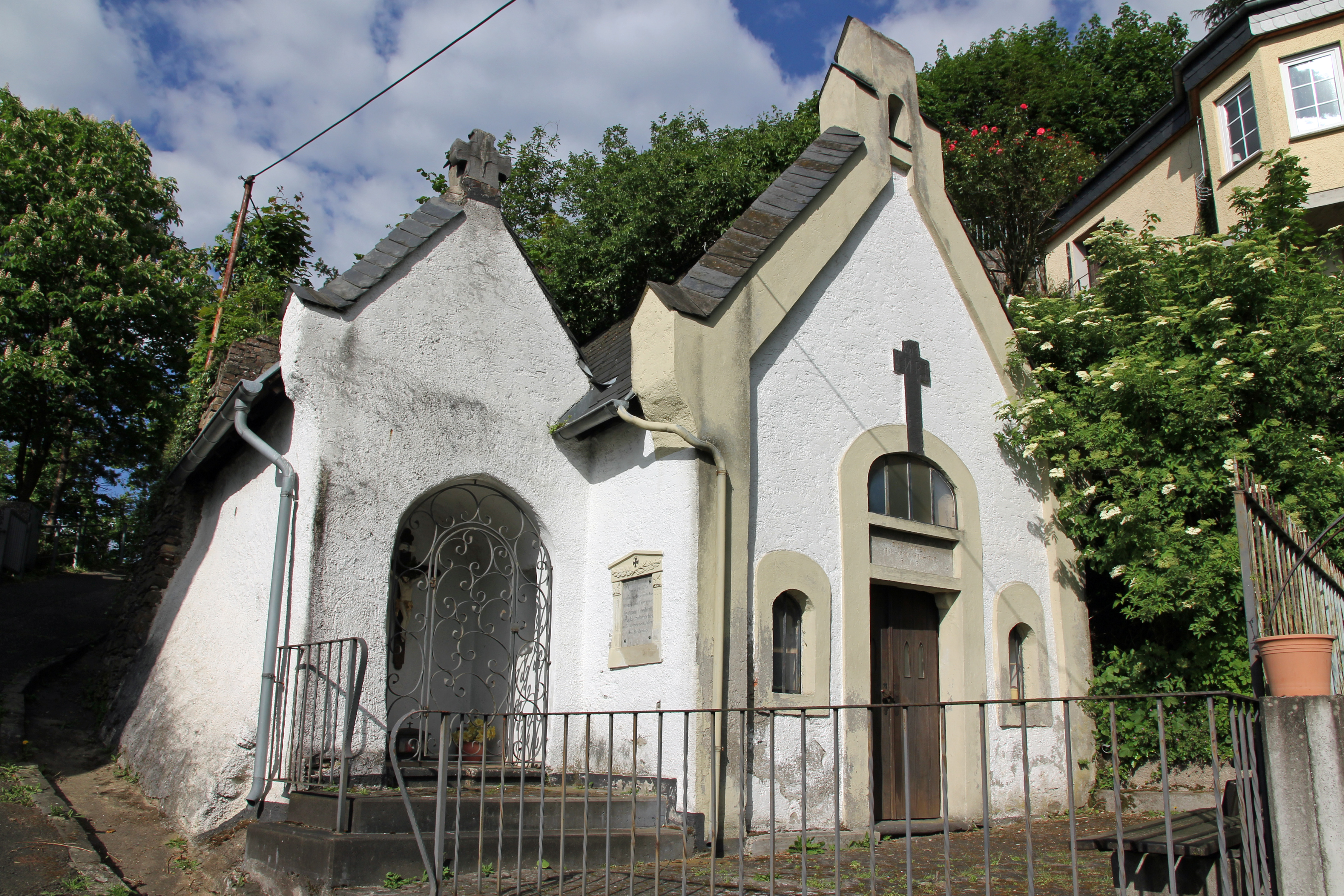 Chapel Klausenberg in Koblenz